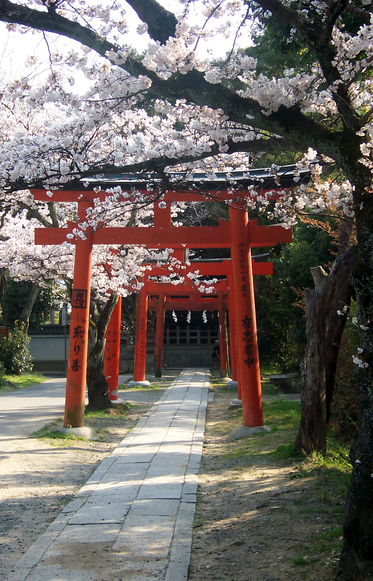 Sakura at the torii at the Yoshida shrine